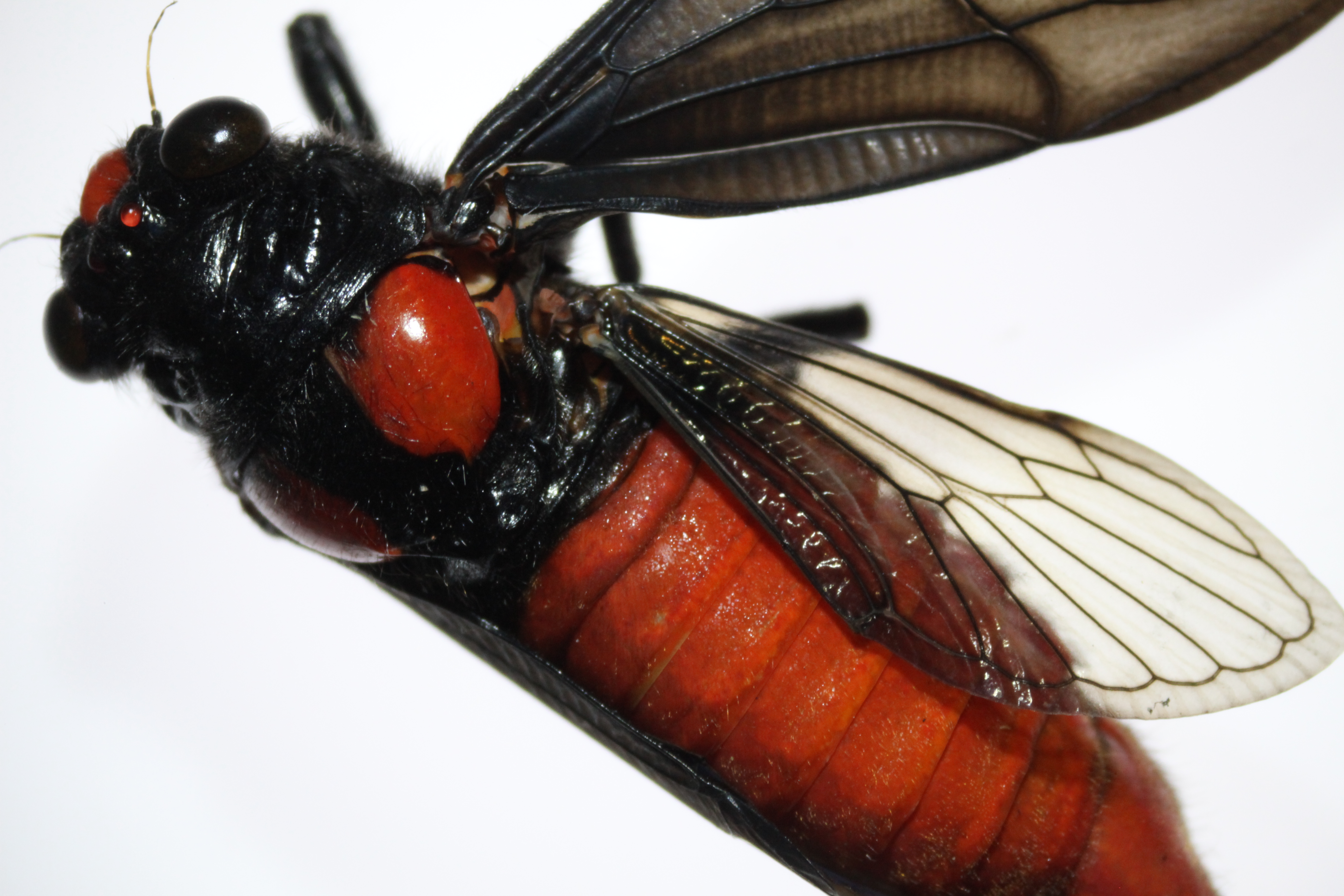 Huechys sanguinea; black and scarlet cicada